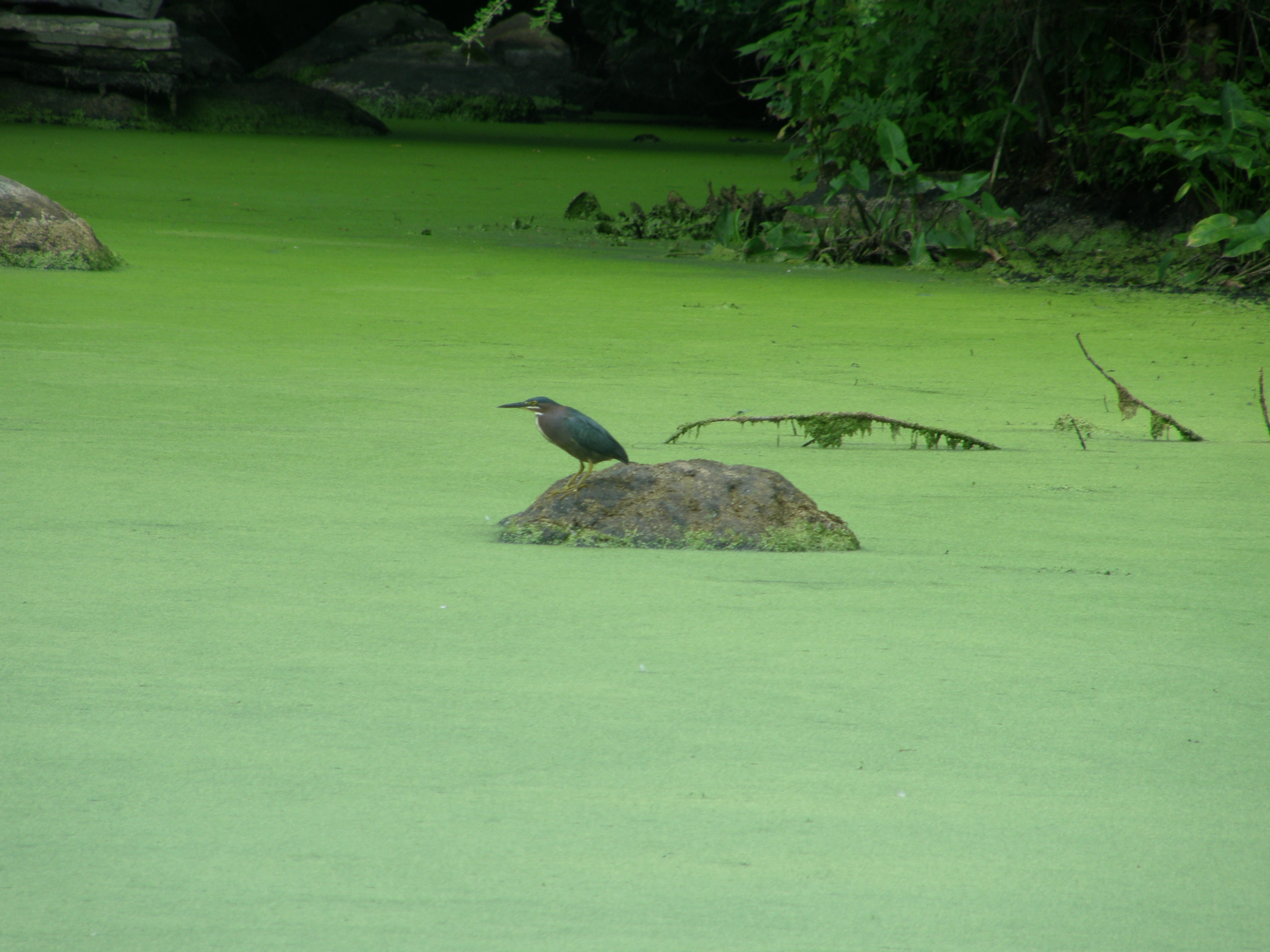 Bartlett Arboretum and Gardens, Stamford, Connecticut.